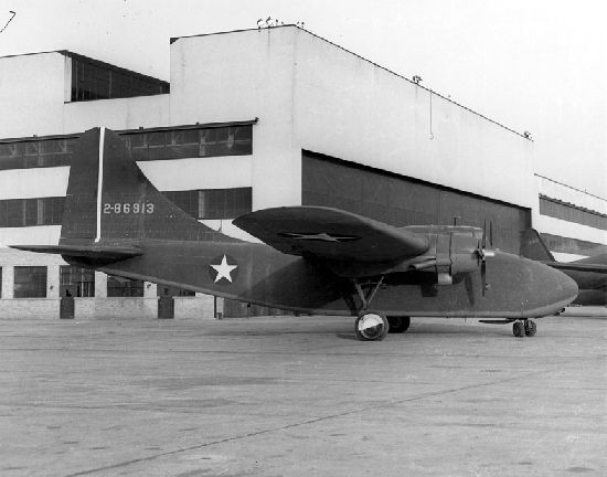 Curtiss-Wright C-76 "Caravan" transport.